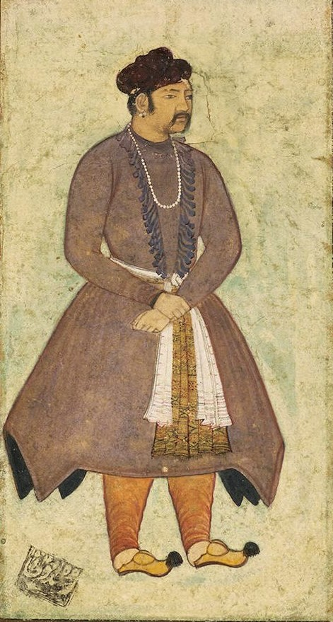 Portrait of Akbar the Great: This portrait represents the Mughal Padishah Akbar the Great (reigned 1556-1605). Created by Manohar, a renowned artist of the Mughal school, the work is remarkable for its exquisite linear drawing, meticulous treatment of details and subtle combination of warm tones.